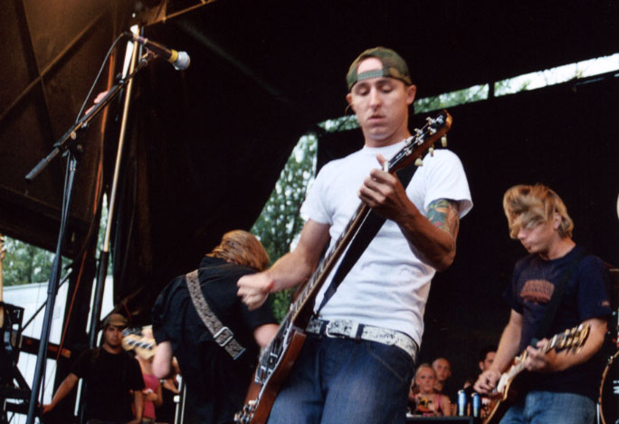 Yellowcard performing on the Vans Warped Tour in Indianapolis.